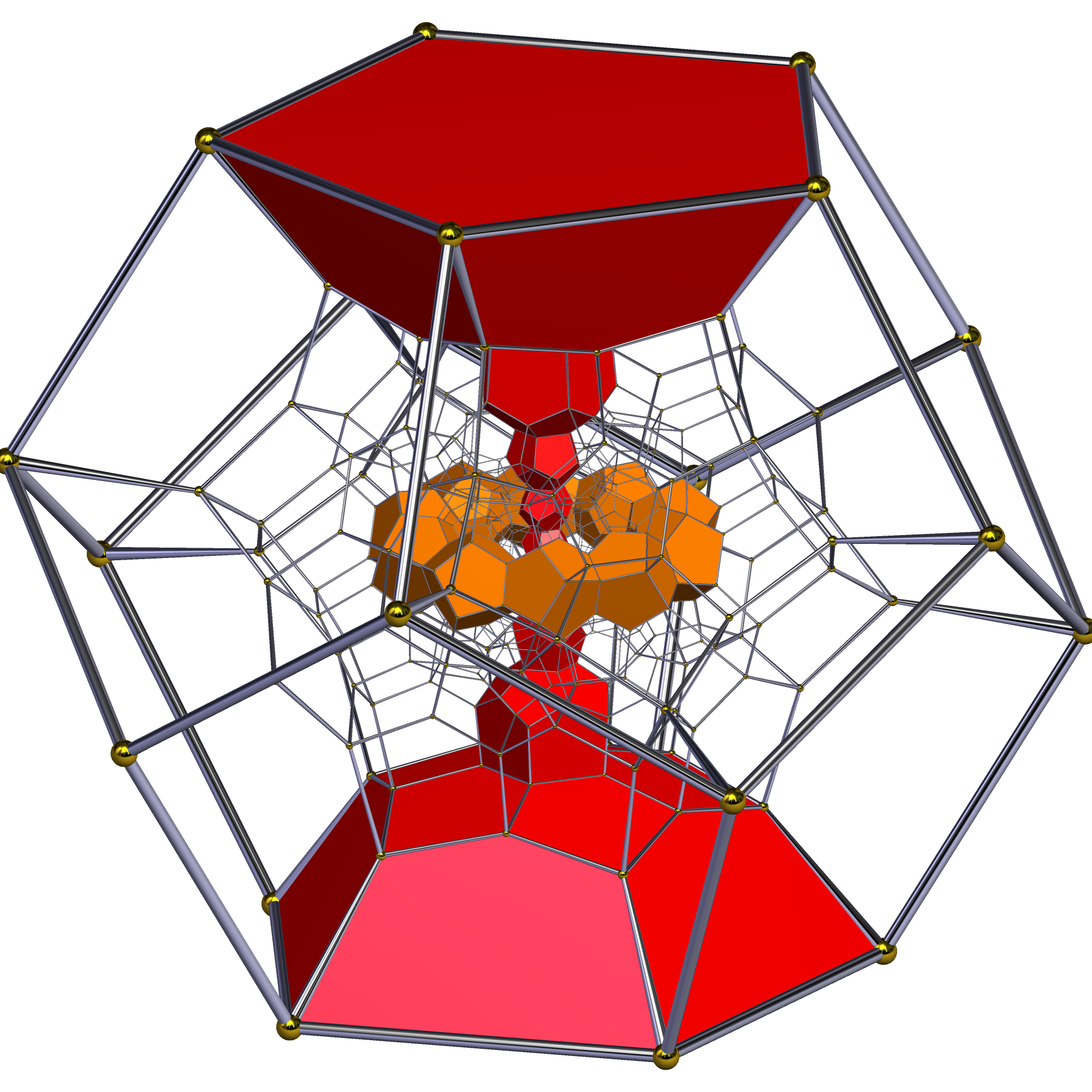 en:120-cell perspective projection, cell-centered, two color rings of 10 dodecahedra